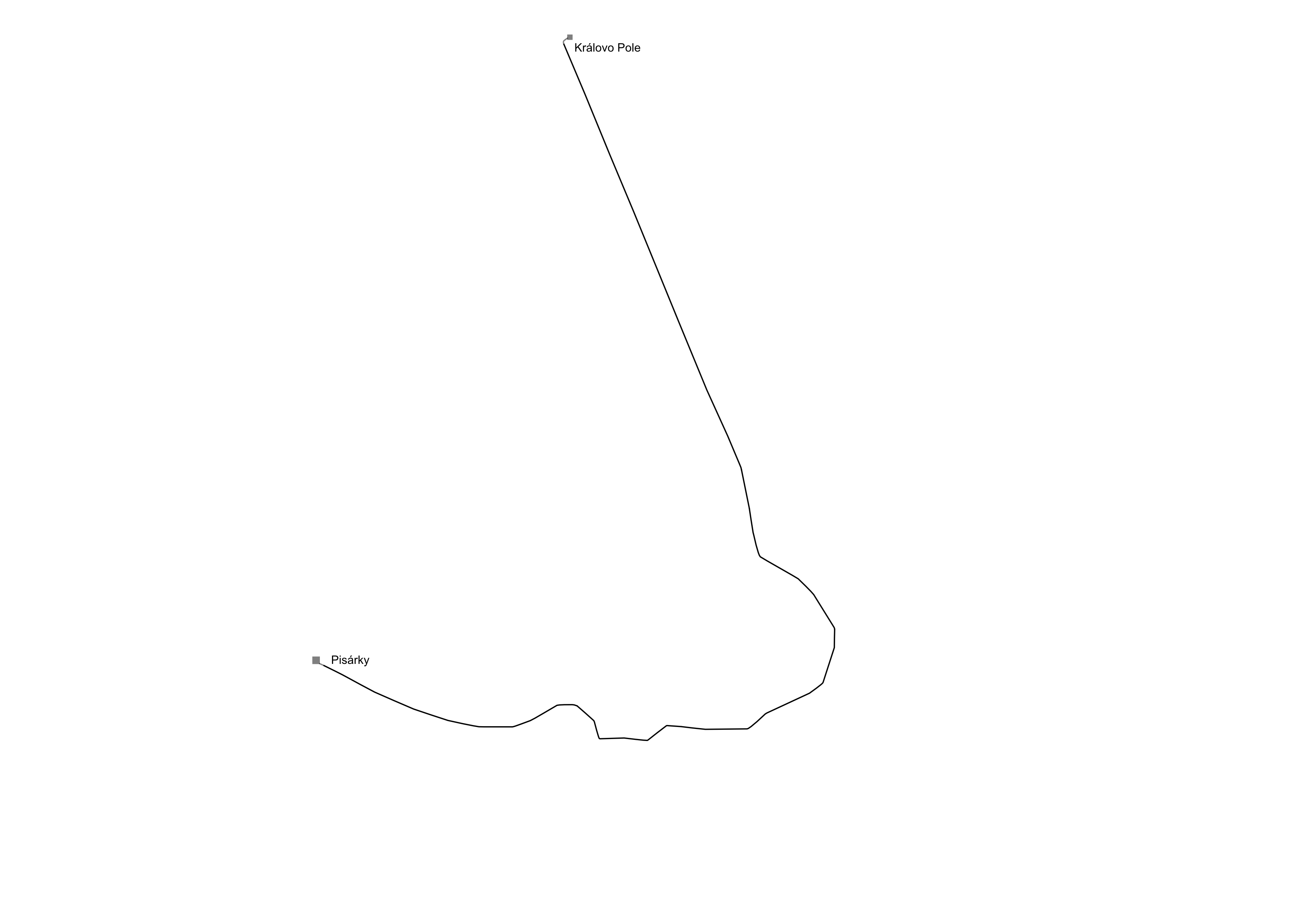 Horse tram network in Brno (situation in 1877), Czech Republic